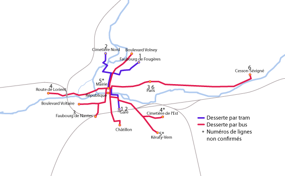 Tram & bus system in Rennes, in 1952, at the end of the tram service